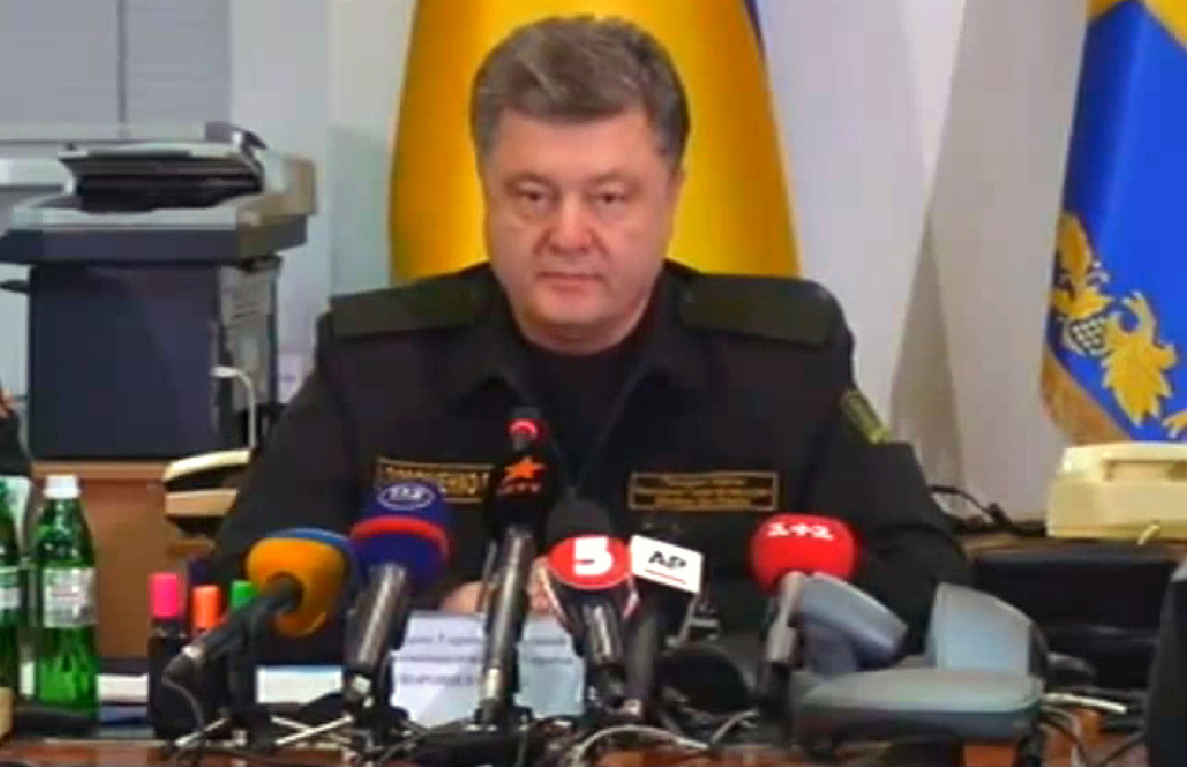 President Poroshenko announces ceasefire starting at midnight 15 February 2015.